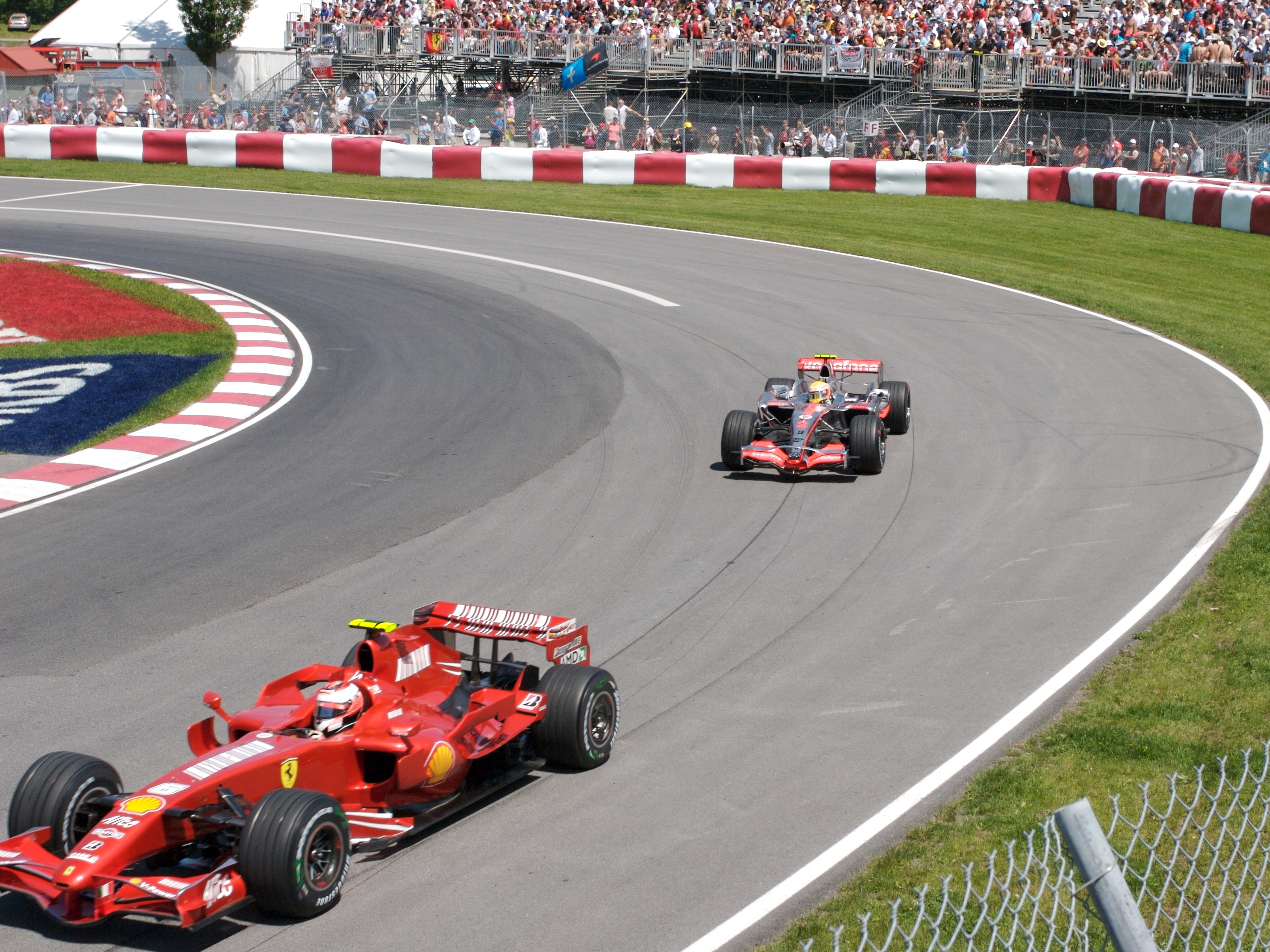 Raikkonen and Hamilton at the 2007 Canadian GP